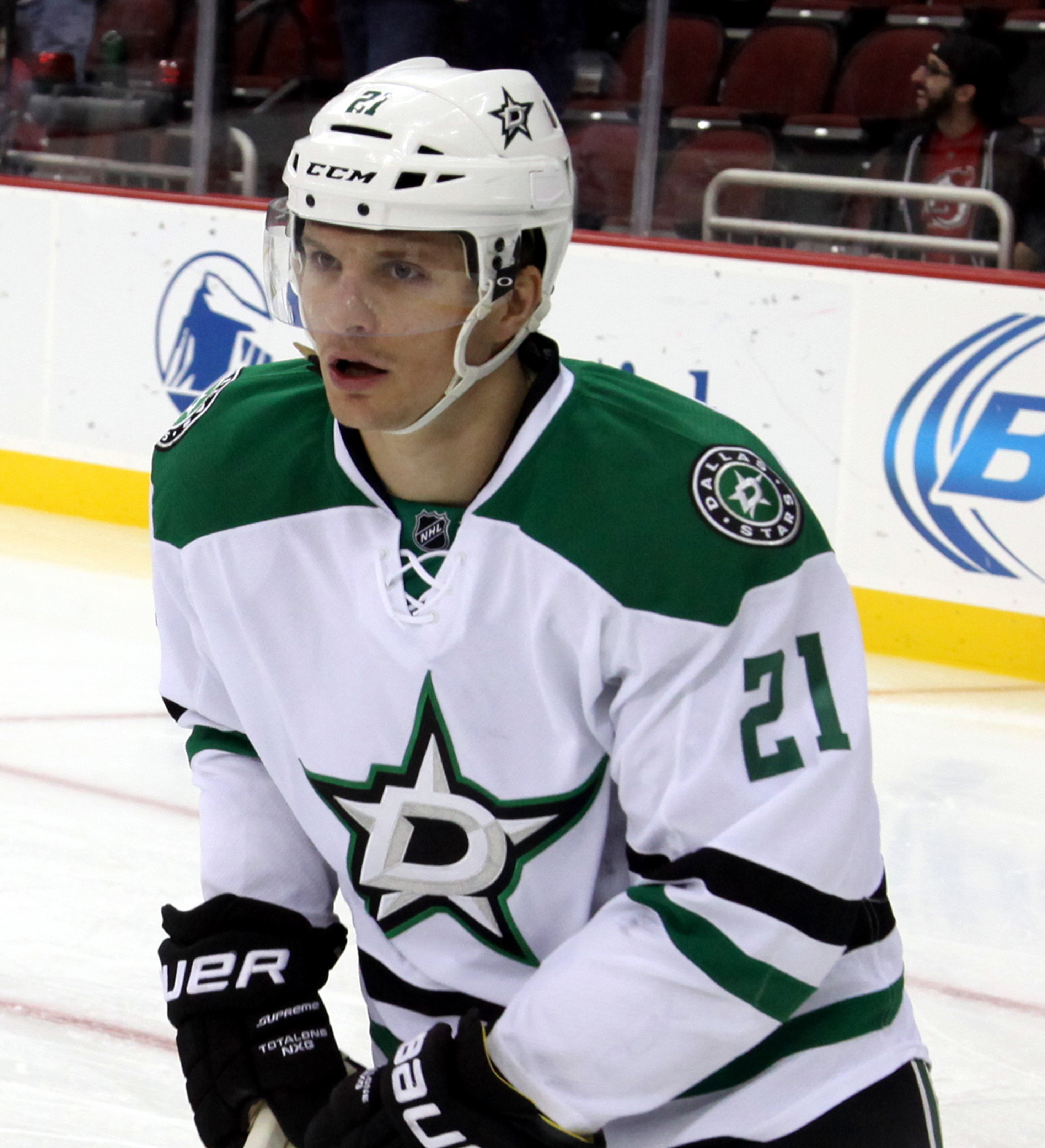 Roussel in October 2014.